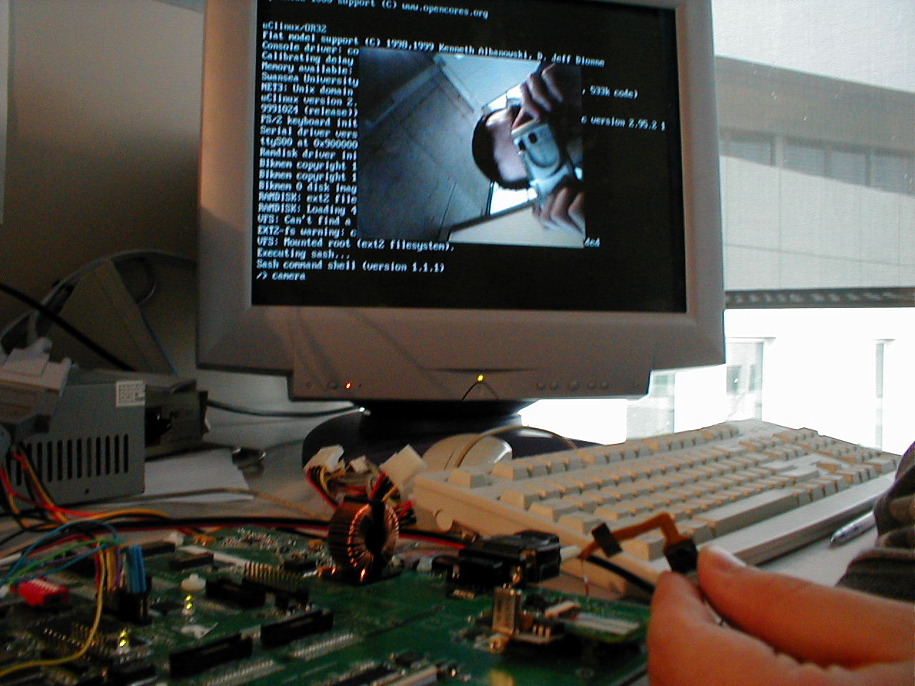 OpenRISC prototyped on a Flextronics FPGA dev board. It shows running uClinux. The image has been taken at Flextronics Ljubljana in 2002.